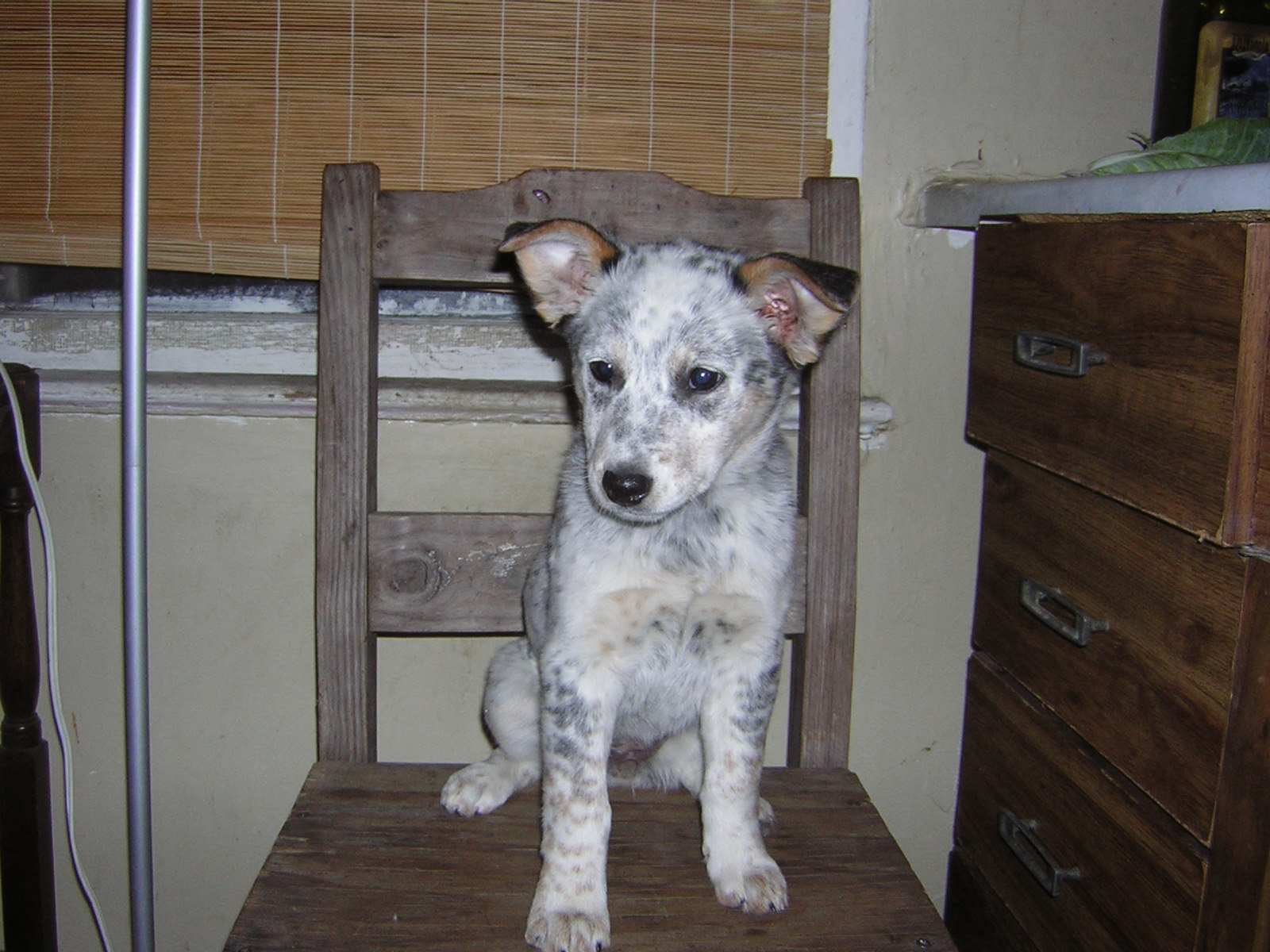 a picture of a 3 month old Texas Heeler puppy